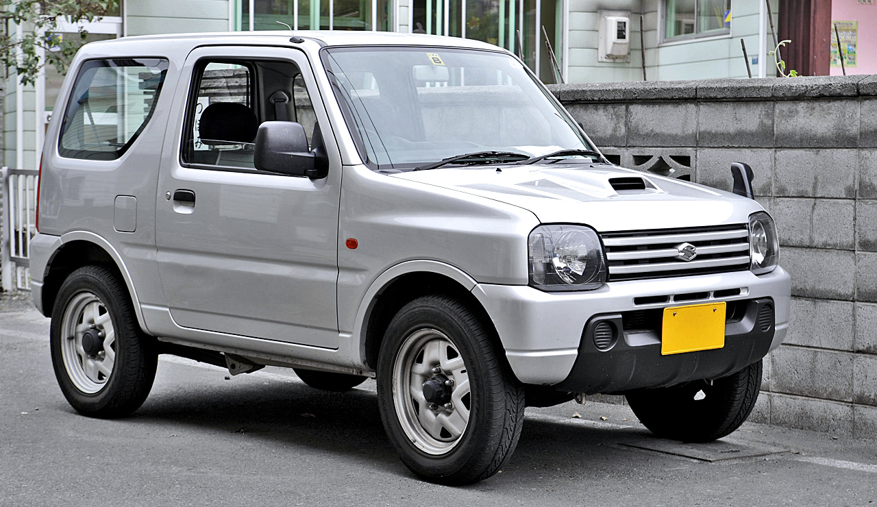 Suzuki Jimny 660 ( JB23W - 4, Jan.'02 ~ Sep.'04)